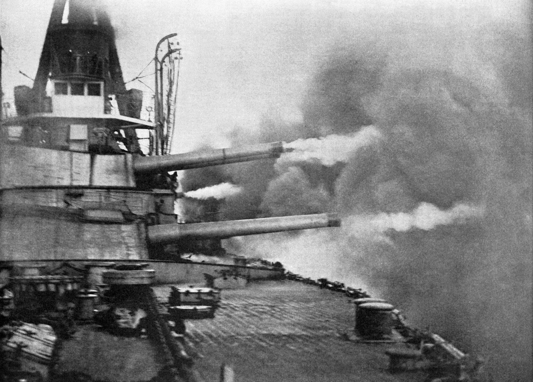 Caption from Scientific American: "During the gun trial of "Minas Geraes" ten 12-inch guns were trained on the broadside and discharged simultaneously. The combined energy of the projectiles amounted to 500,000 foot-tons, or sufficient to lift the ship bodily 26 feet into the air. ... The Greatest Broadside ever fired from a battleship."